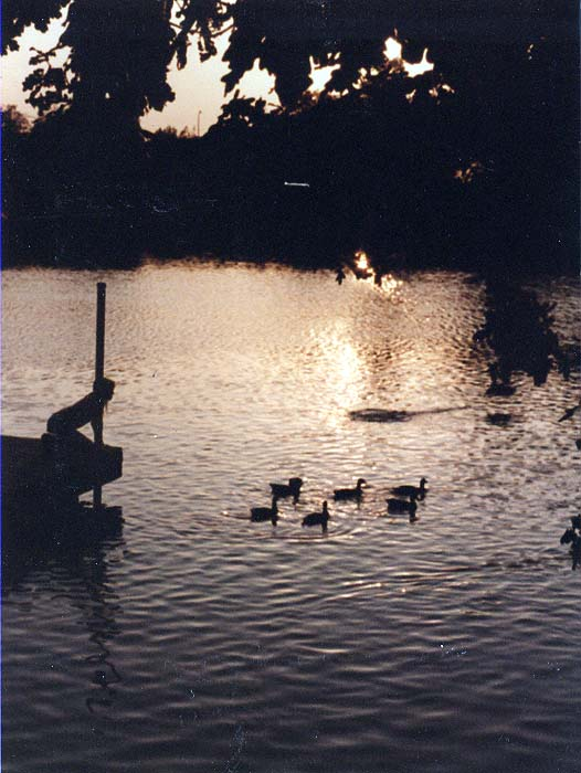 Putah Creek at the UC Davis Arboretum, California. "This was taken at the UC Davis Arboretum. Jeri is kneeling on a pier looking at the ducks in Putah Creek. I took it with my point-and-shoot camera many, many years ago and it has always been one of my favorites."